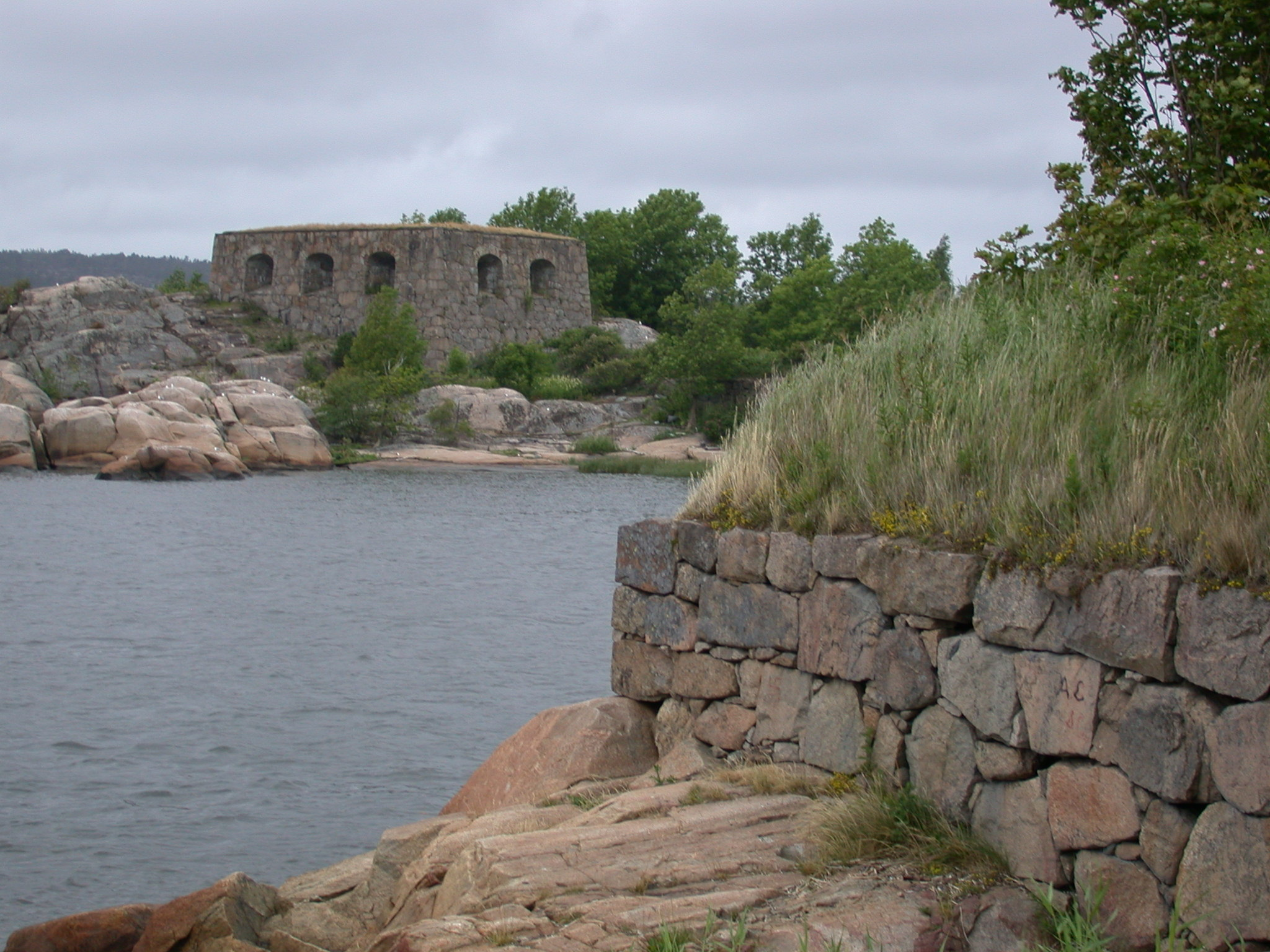 Huth blockhouse and Fasting battery, a detached outwork of Fredrikstad Fortress, Norway